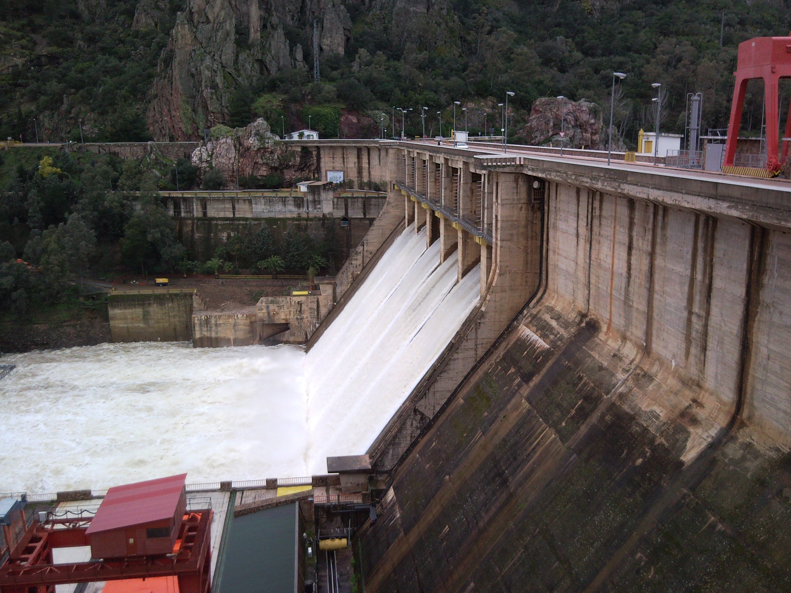 García de Sola Dam over Guadiana river, province of Badajoz, Talarrubias, Spain.